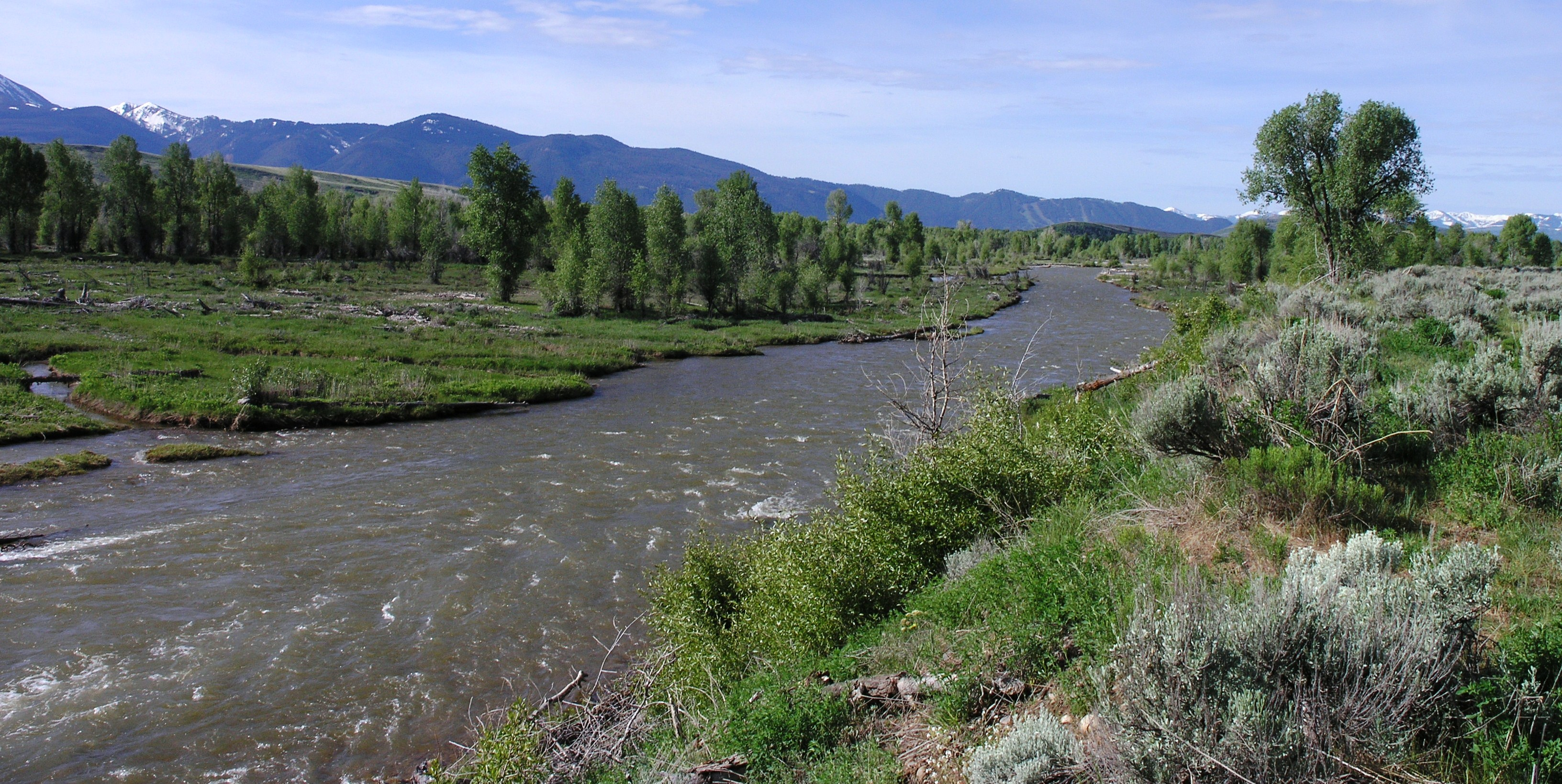 Photo in or around Grand Teton National Park